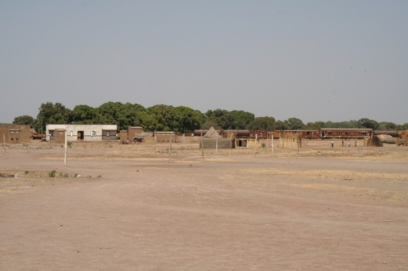 Rail transport in Aweil - South Sudan.